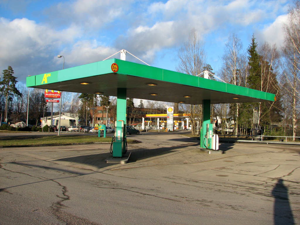 A24 petrol station in Vantaa, Finland.